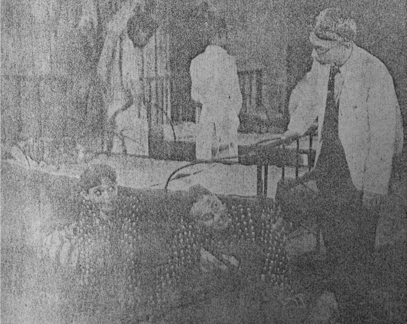 Indo actor Pah Wongso in a scene from Pah Wongso Tersangka